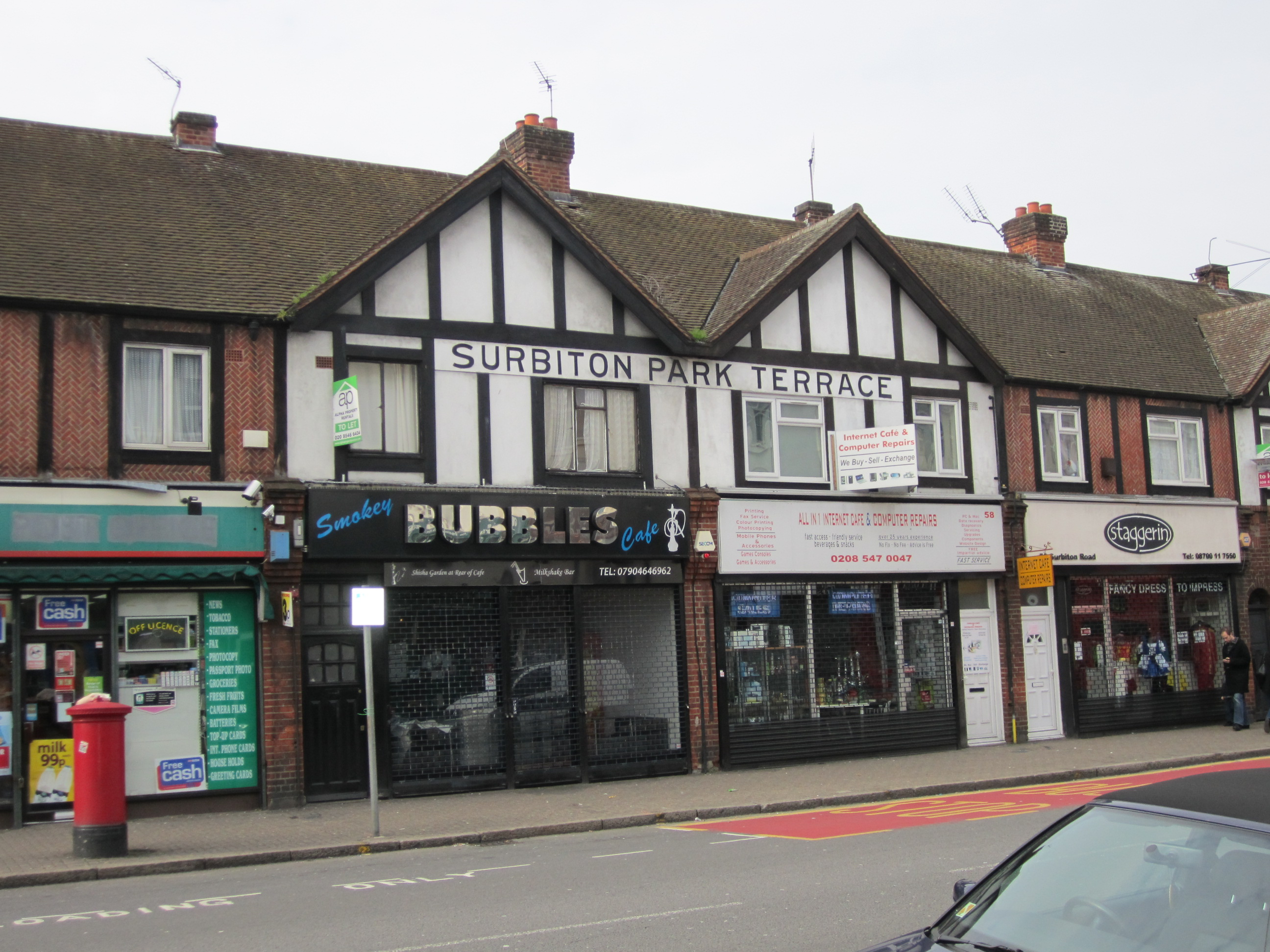 Surbiton Road, Kingston upon Thames, United Kingdom, with wording on facade of shops and site of former sub-post office.